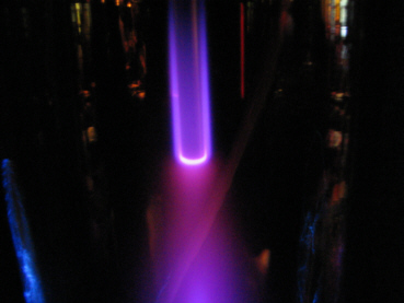 Image of an electrode in an Argon glow discharge